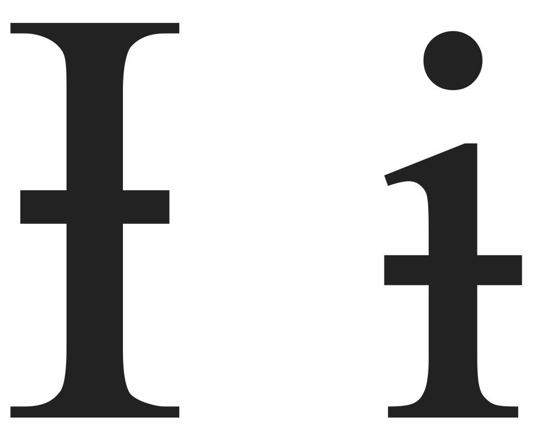 I with bar